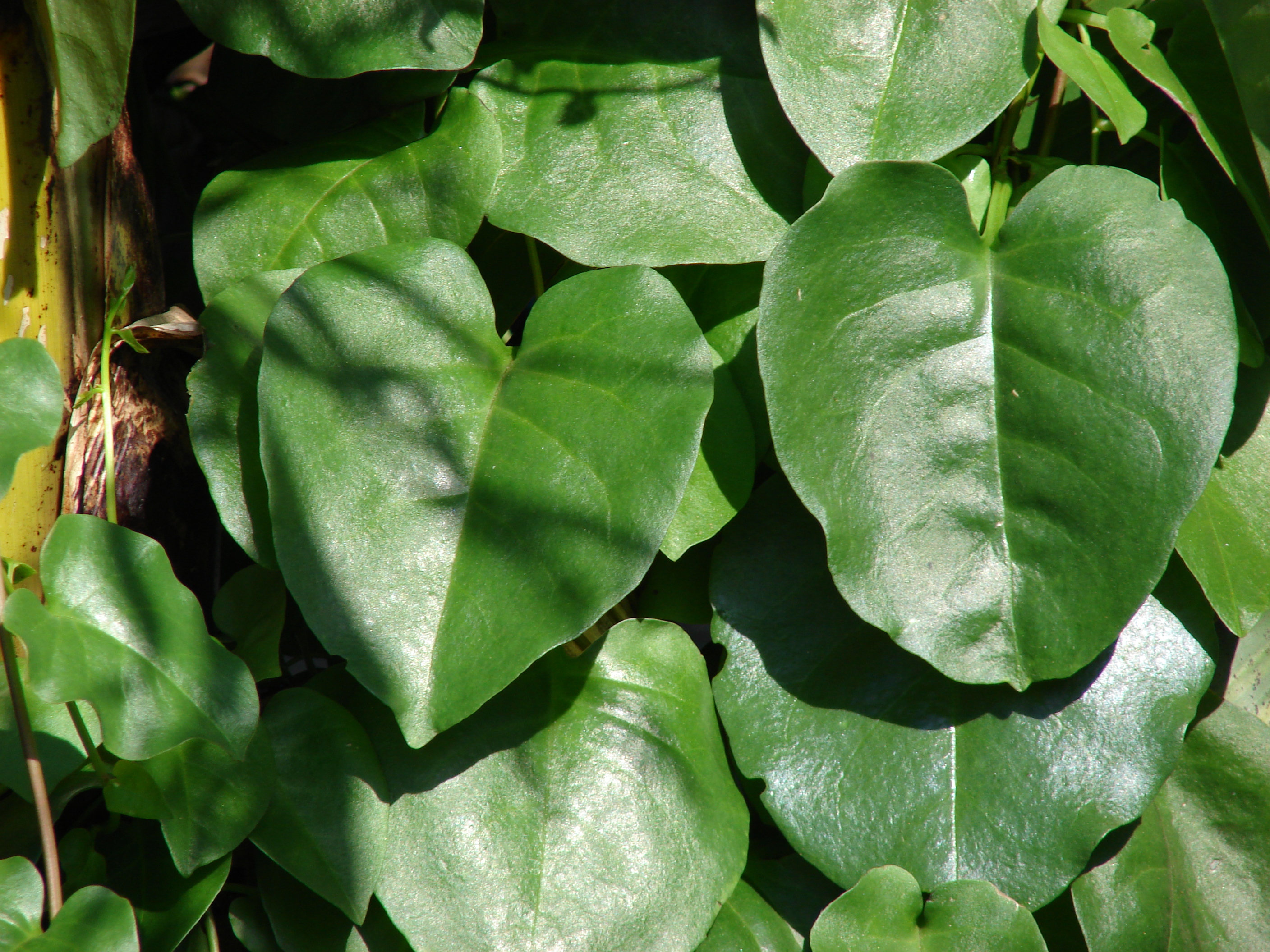 Anredera cordifolia (leaves). Location: Lanai, Lanai City